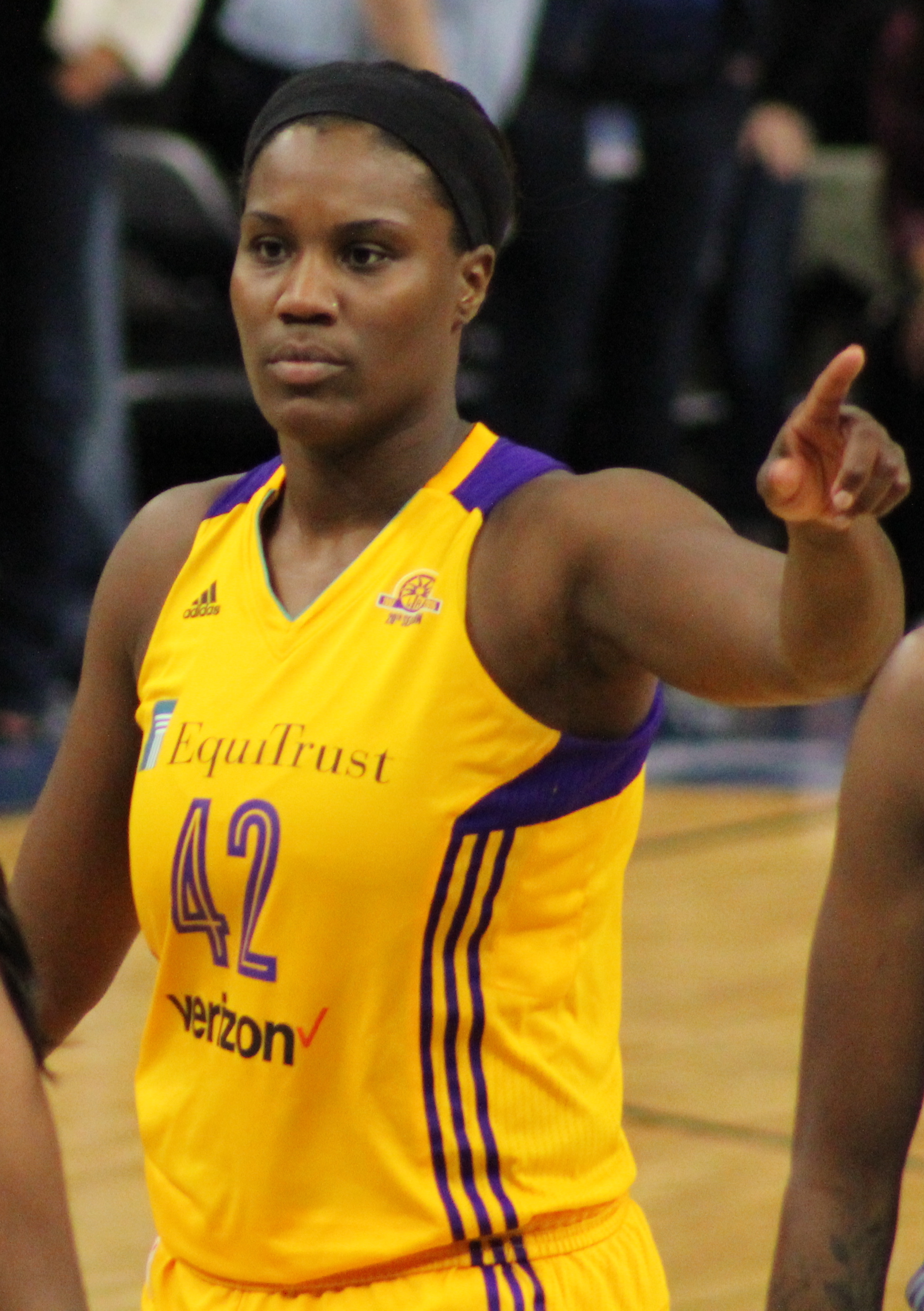 Jantel Lavender of the Los Angeles Sparks